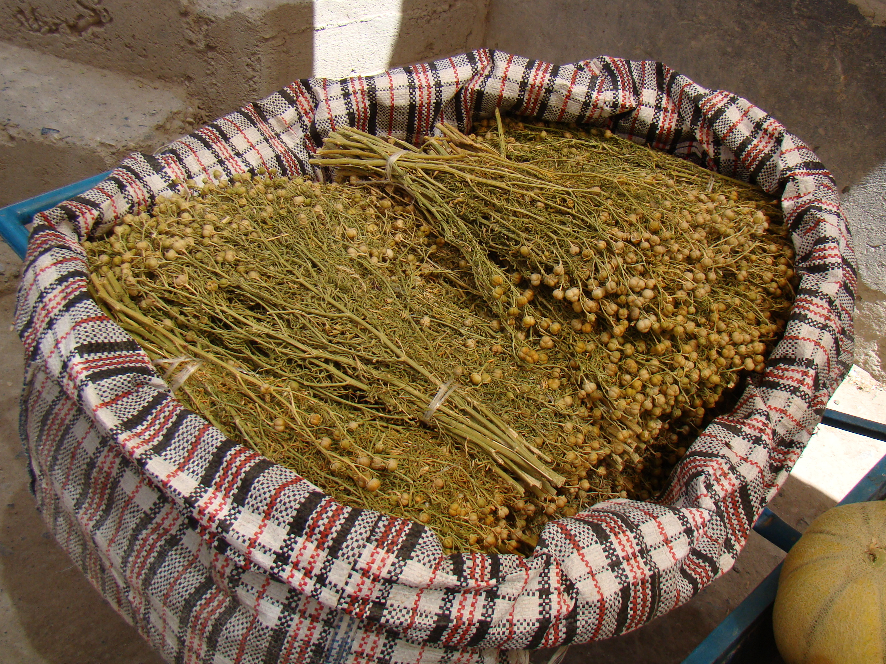 Sale of a grass Peganum harmala in the market in town Kentau, Kazakhstan.